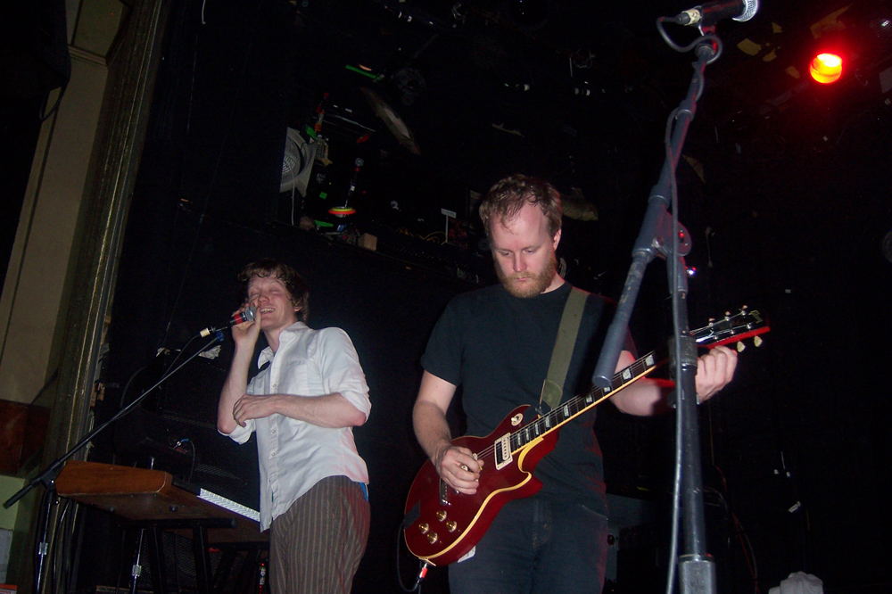 Clap Your Hands Say Yeah playing at the Bowery Ballroom, NYC.